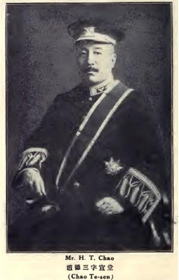 Zhao Desan (1873-？)